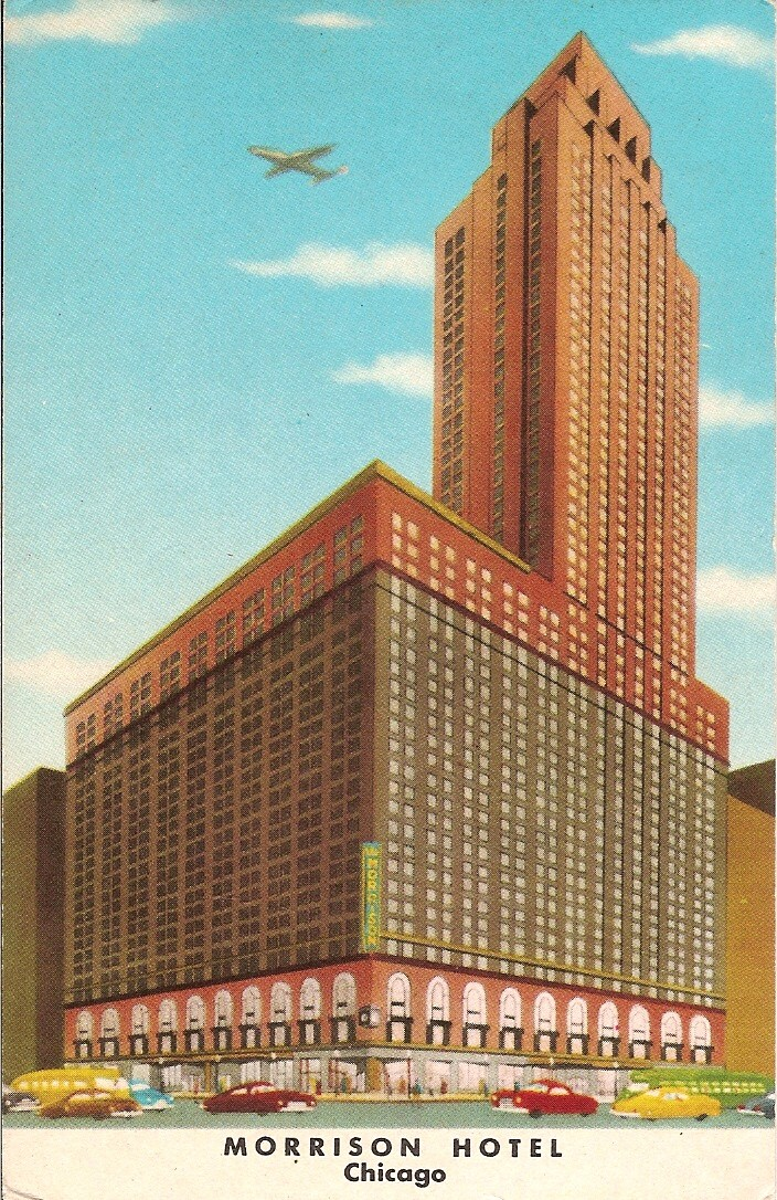 Linen postcard of the Morrison Hotel, demolished in 1965